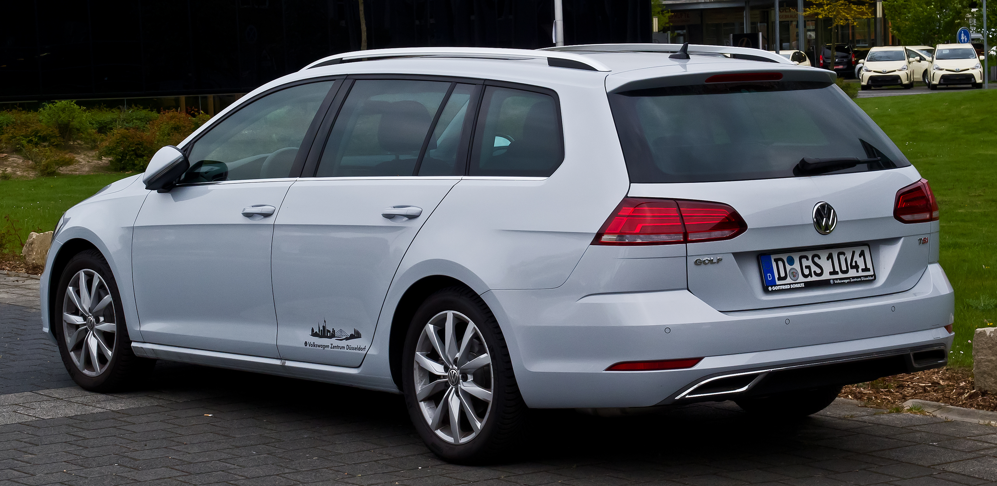 VW Golf Variant 1.4 TSI BlueMotion Technology Highline (VII, Facelift)